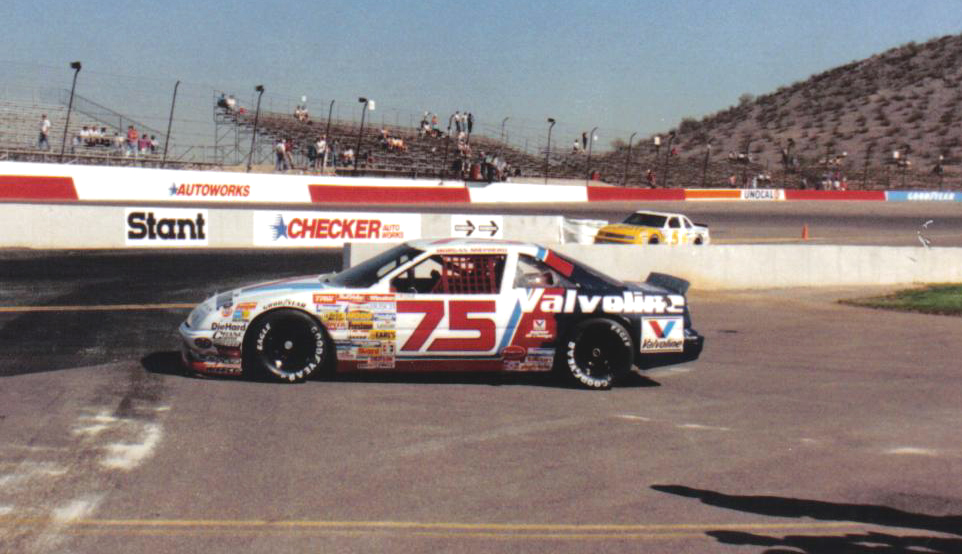 The RahMoc Enterprises Valvoline Pontiac of Morgan Shepherd finished 12th in the 1989 Checker Autoworks 500.Morgan Shepherd #75